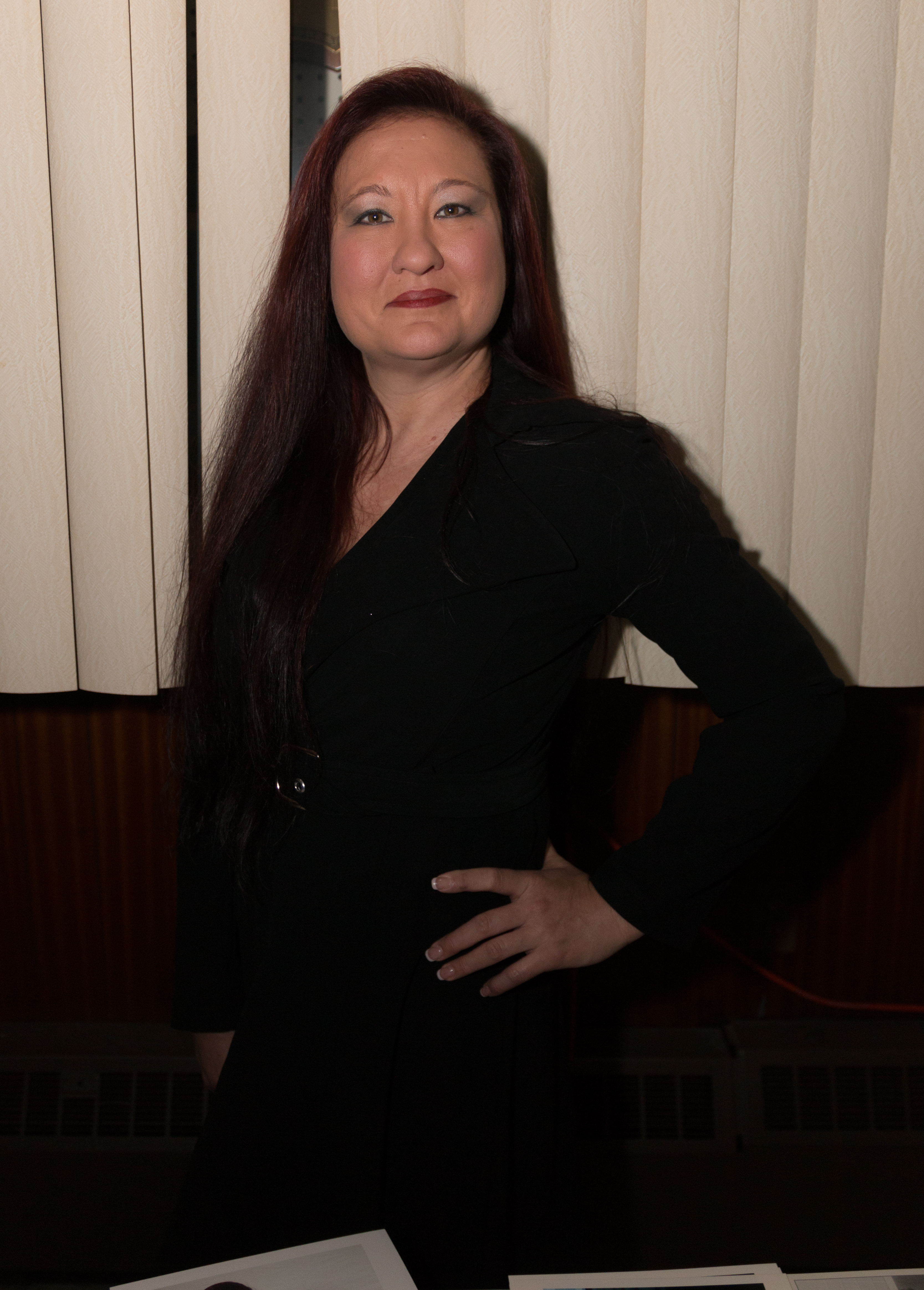 Independent wrestler Malia Hosaka during intermission at a BWCW show in Port Huron, MI